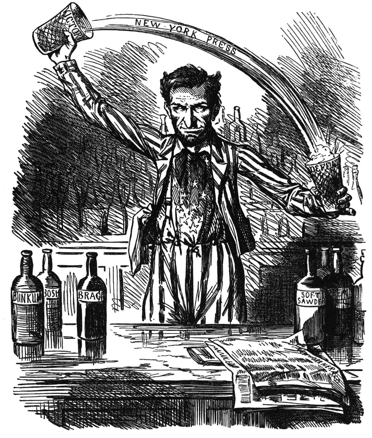 1862 cartoon about Abraham Lincoln